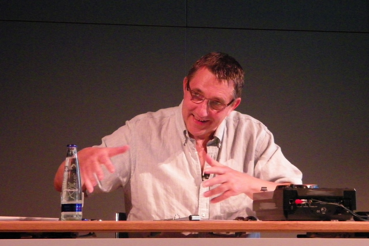 Peter Zudeick performing comedy at Radiotage Tutzing